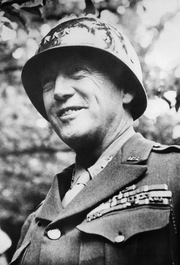 George S. Patton